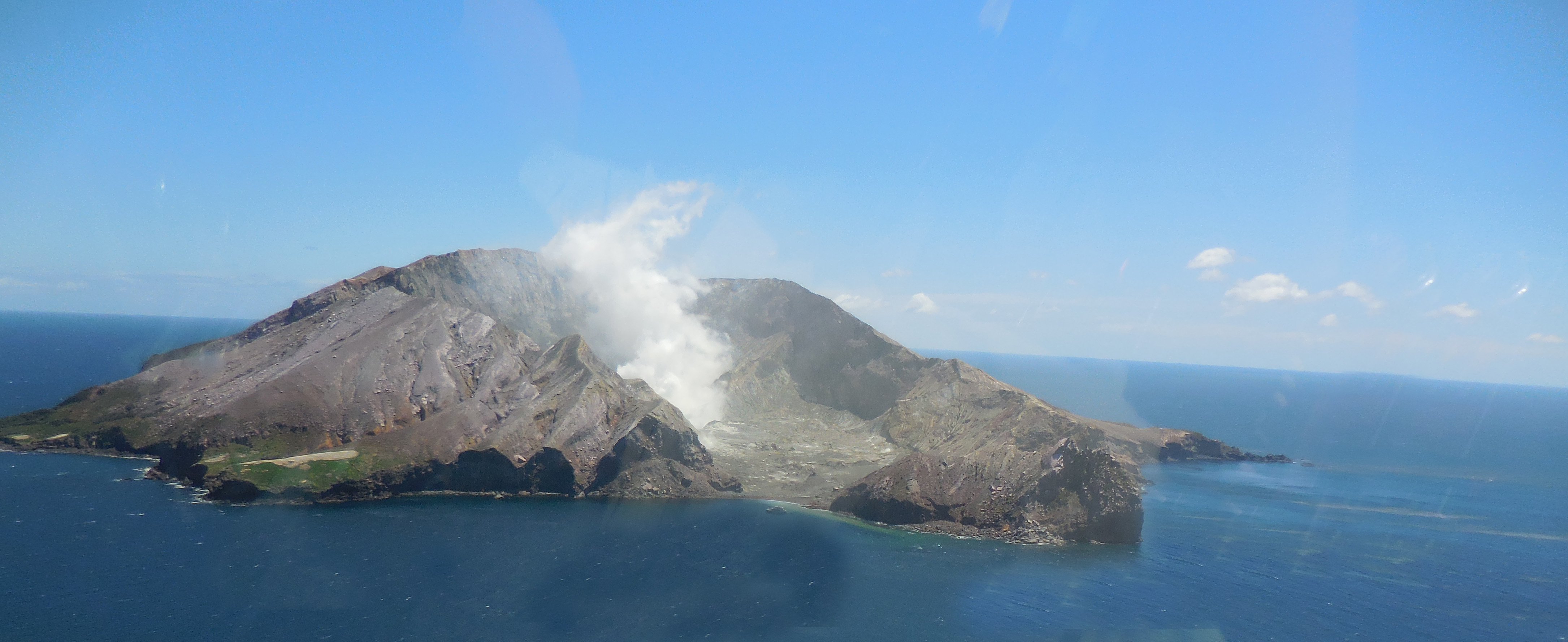 White Island volcano, Bay of Plenty, New Zealand